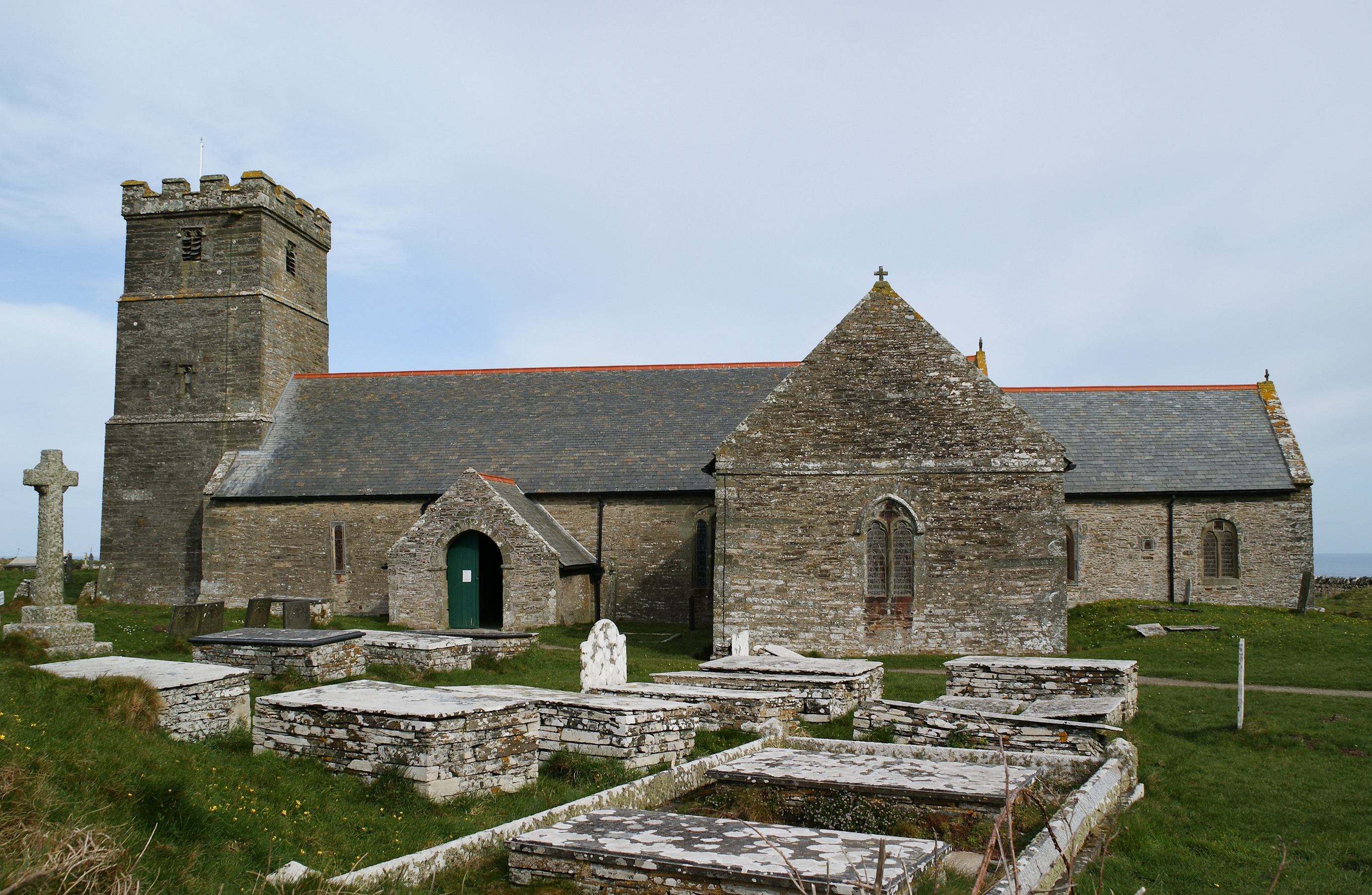 The parish church of St Materiana's in Tintagel, Cornwall, UK. The church is a grade 1 listed building and may have been started in the 11th or early 12th century.